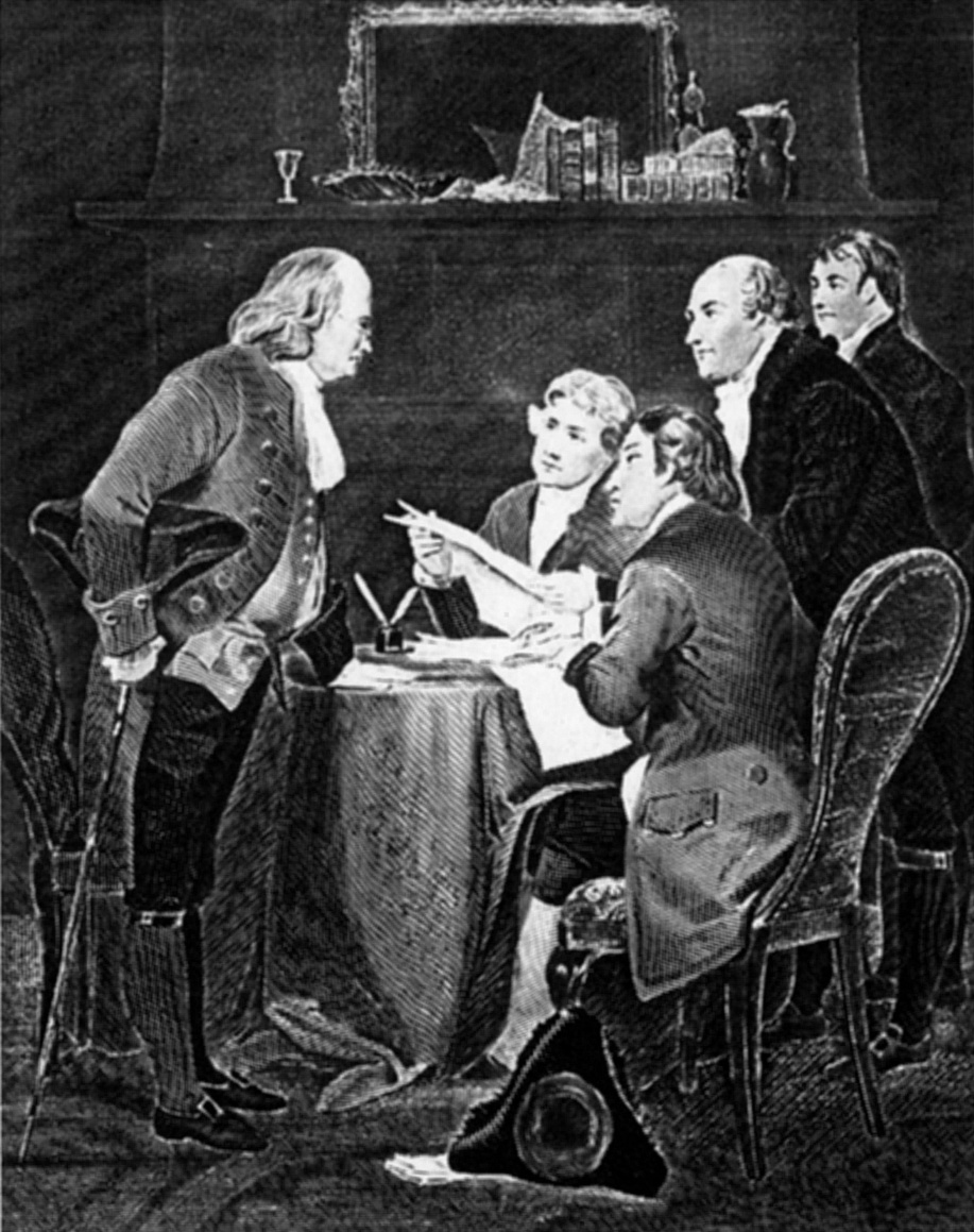 Drafting of the Declaration of Independence. The Commitee: Franklin, Jefferson, Adams, Livingston, and Sherman. 1776. Copy of engraving after Alonzo Chappel.